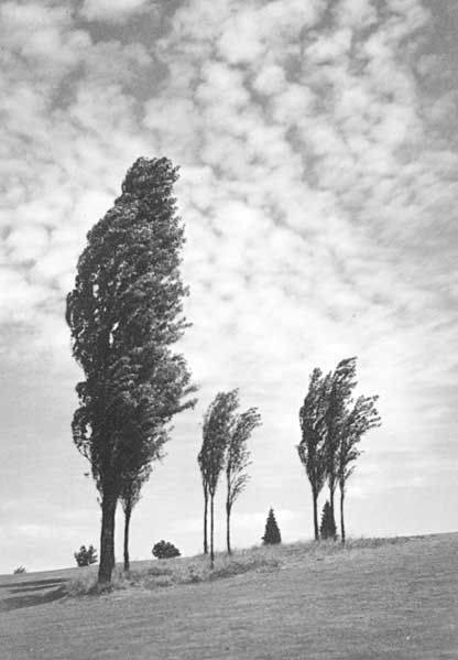 At the Mercy of Summer Breeze Photographer: Koike, Kyo Subjects (LCTGM): Trees--Washington (State) Clouds Digital Collection: Modern Photographers Collection Item Number: MPH451 Persistent URL: Visit Special Collections page for information on ordering a copy. University of Washington Libraries. Digital Collections